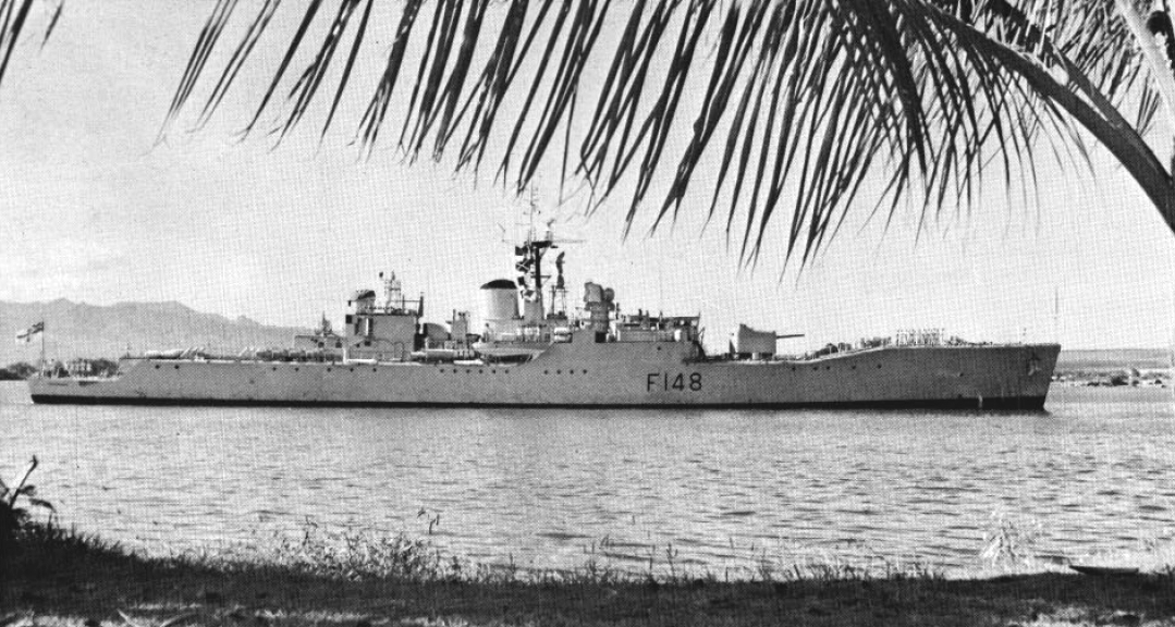 The Royal New Zealand Navy frigate HMNZS Taranaki (F148) at Pearl Harbor, Hawaii (USA), circa 1963.